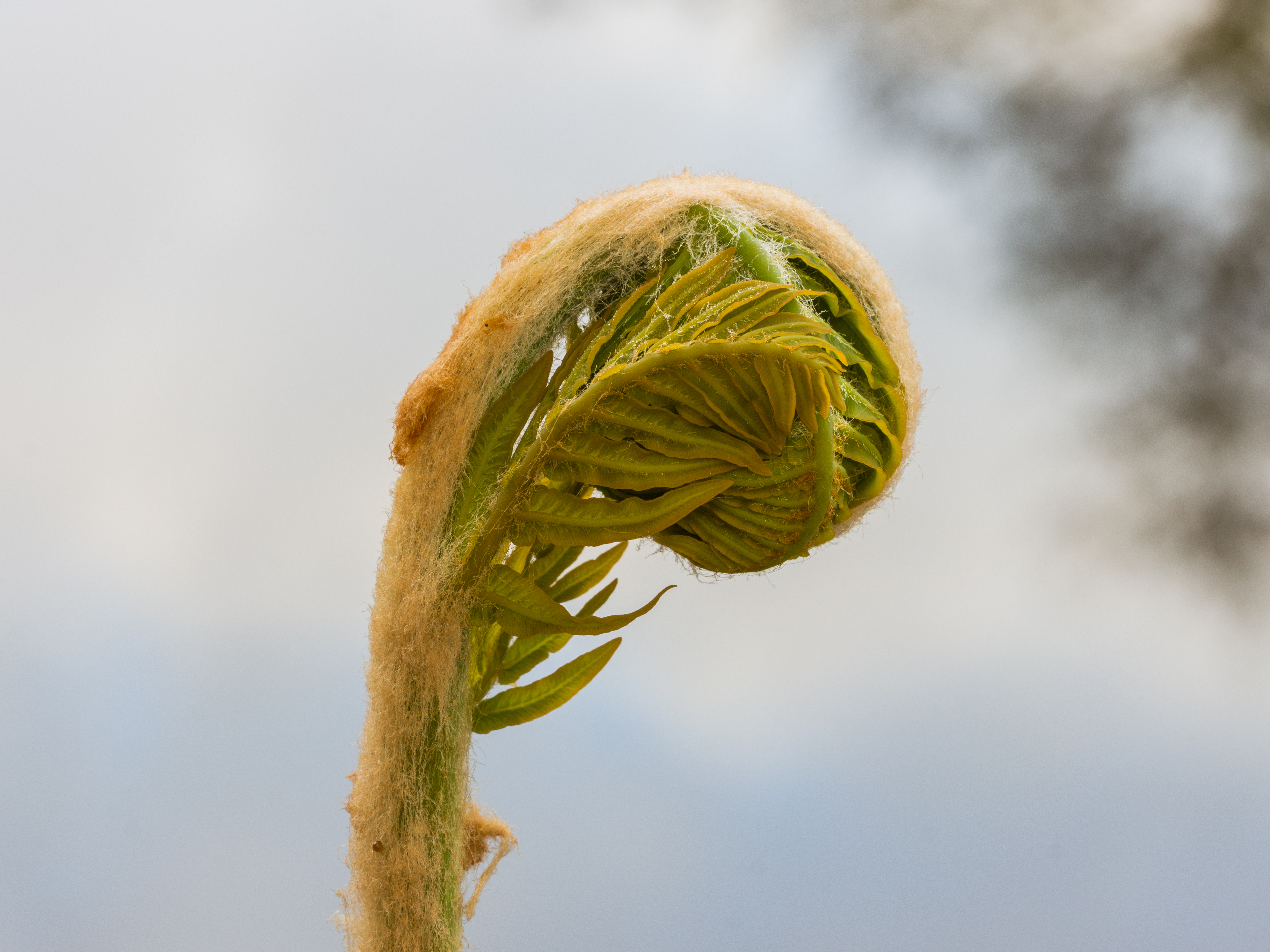 Beautifully unrolling leaf of a palustris on the waterfront. The background is the water. Location, Jonker valley garden reserve.